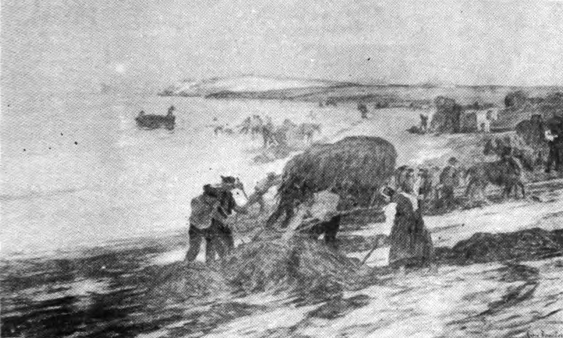 Engraving after The Kelp Gatherers by André Dauchez.